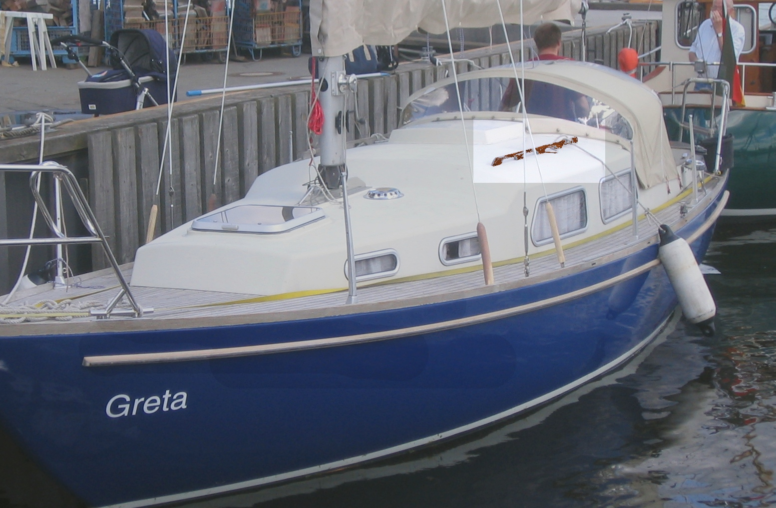 hand grab on yacht cabin's roof